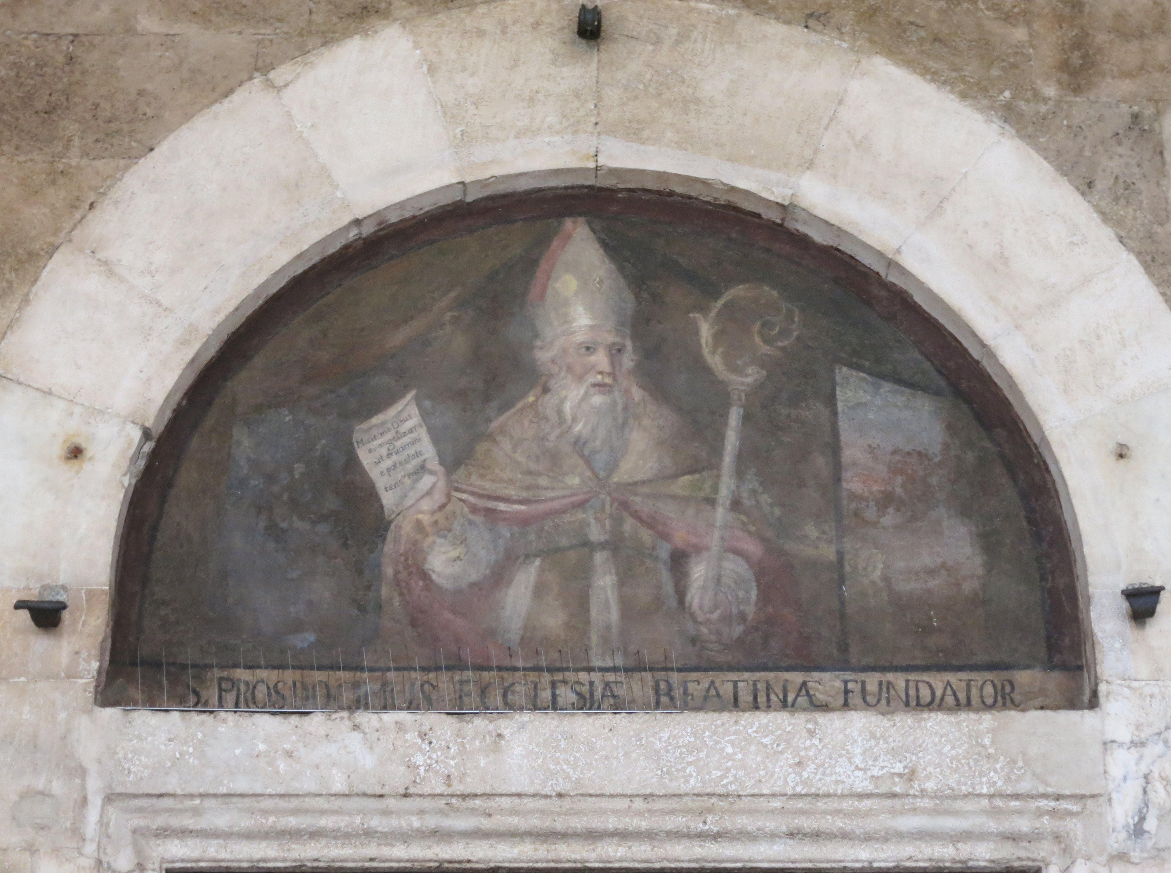 Lune on the left portal of St. Mary Cathedral in Rieti (Lazio, Italy), representing Saint Prosdocimus, founder of the Diocese of Rieti